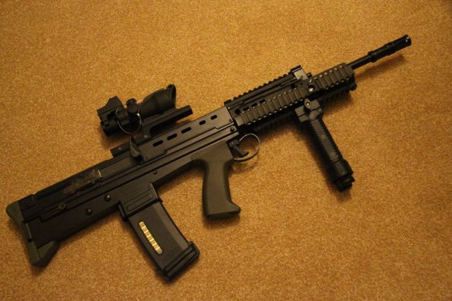 An ARES L85 customised with a Daniel Defense RIS system, a replica ACOG scope, a replica gripod and Magpul PTS EMAG.